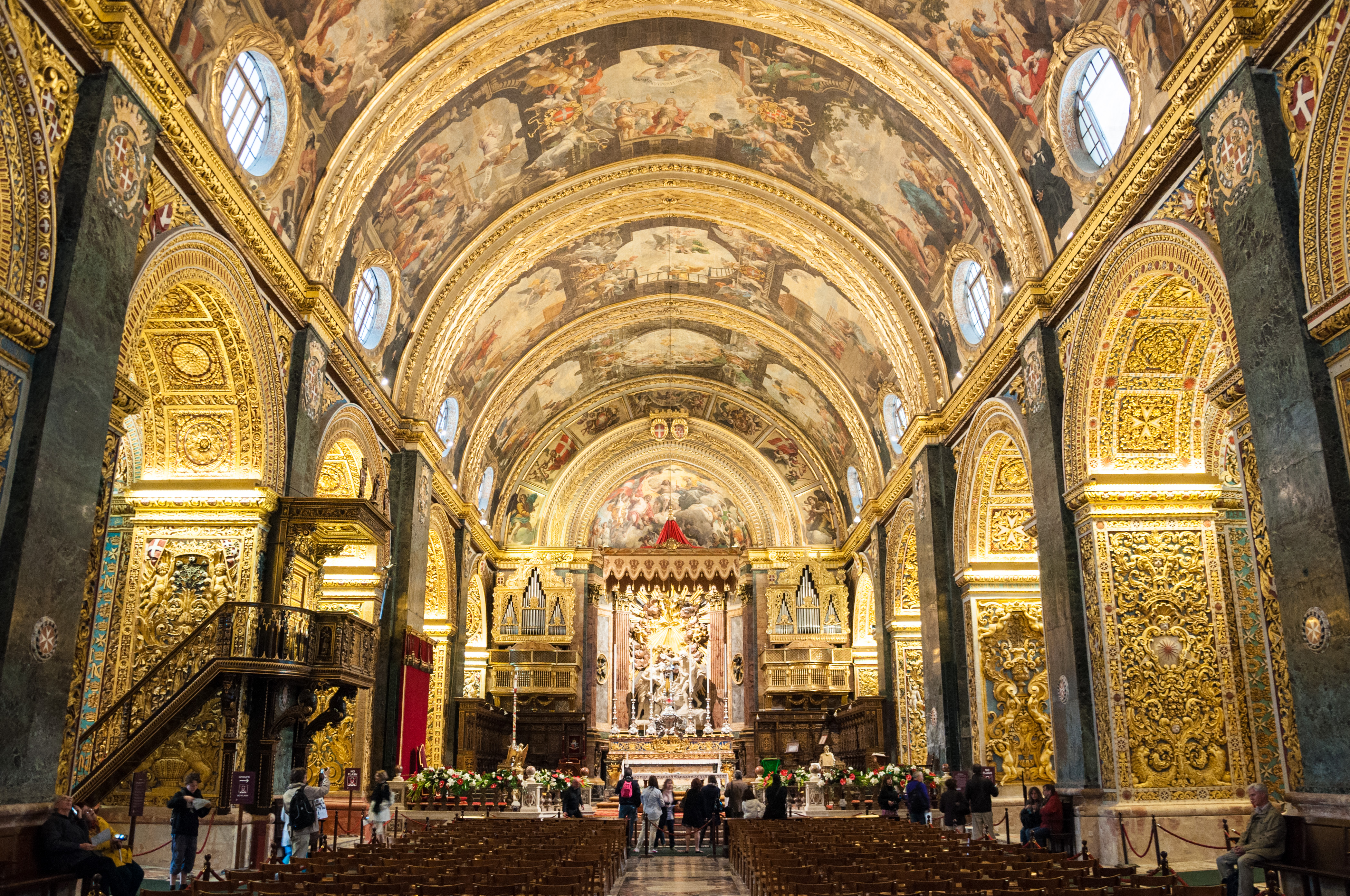 Malta, St John's Pro-Cathedral